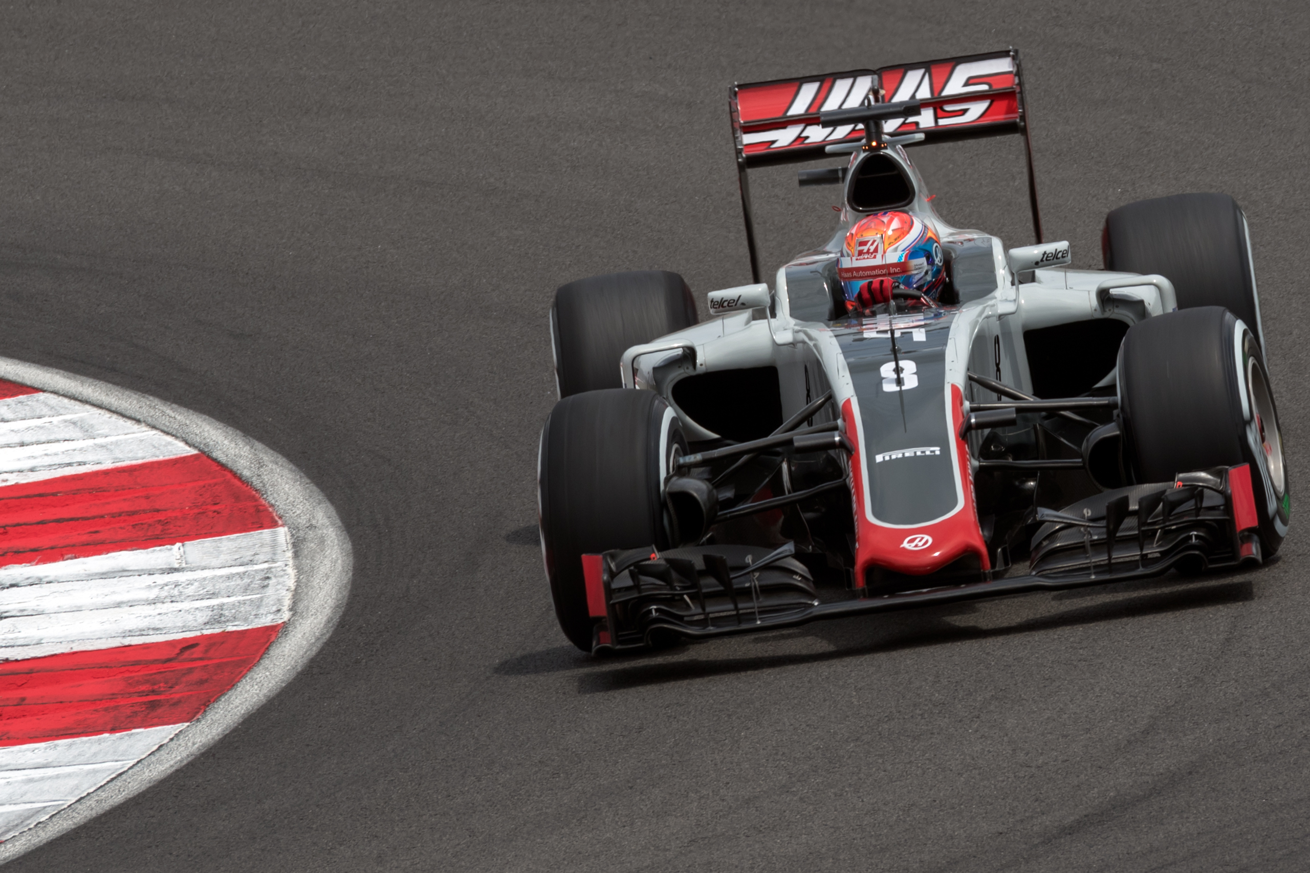 Formula One 2016 Rd.16 Malaysian GP: Romain Grosjean (Haas F1 Team)